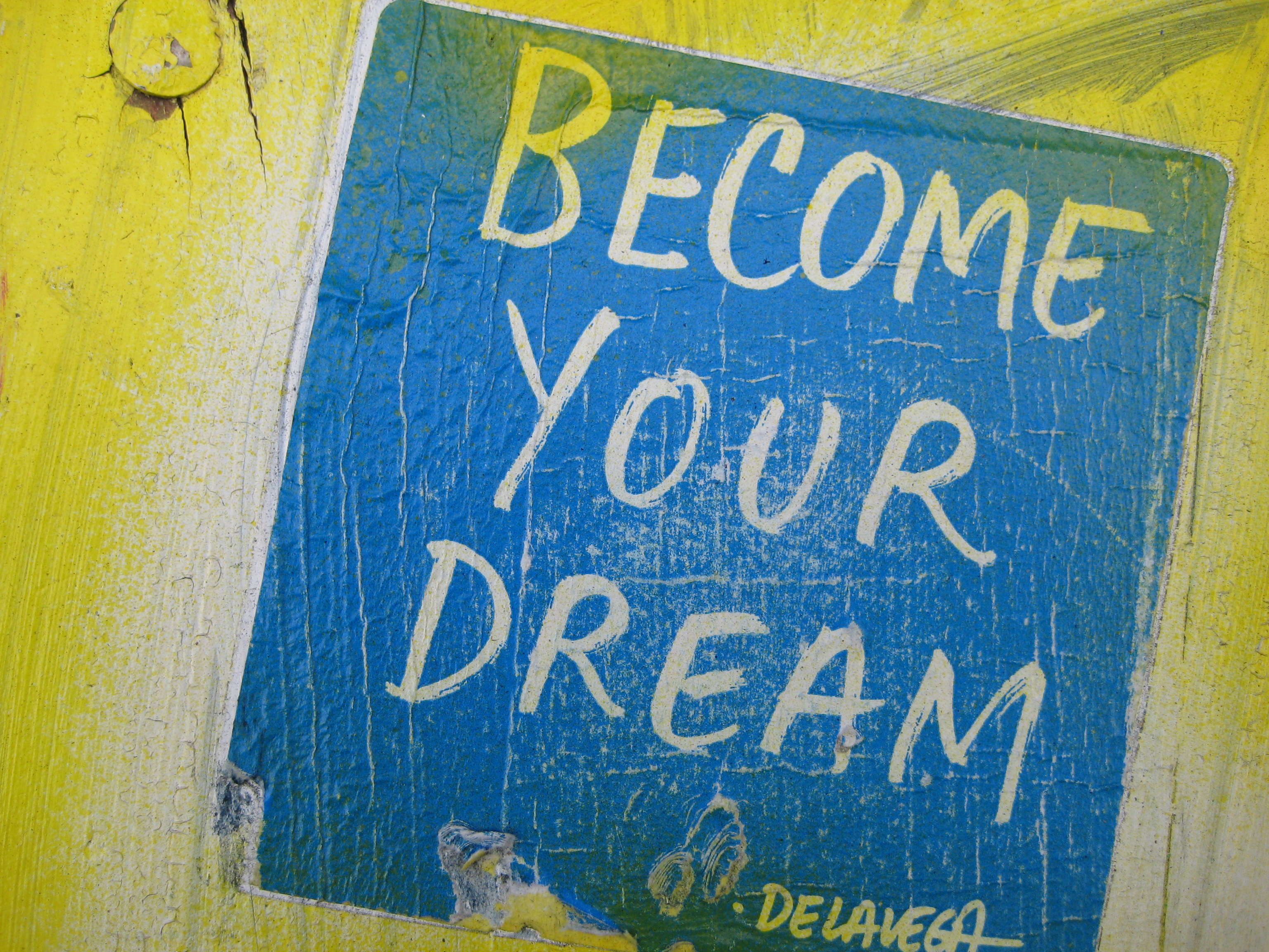 In and around the De La Vega shop on St.Mark's Place, East Village, New York